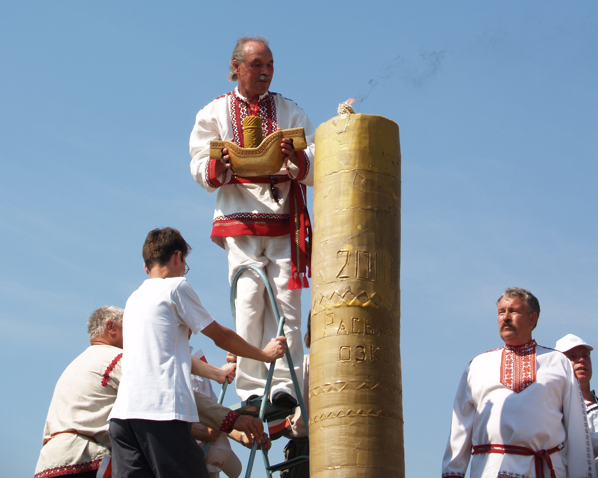 Erzya universal prayer (Rasken Ozks). the village of Chukaly, Bolsheignatovsky district, Mordovia. 7 July 2010. This photo has been taken in the country: Russia